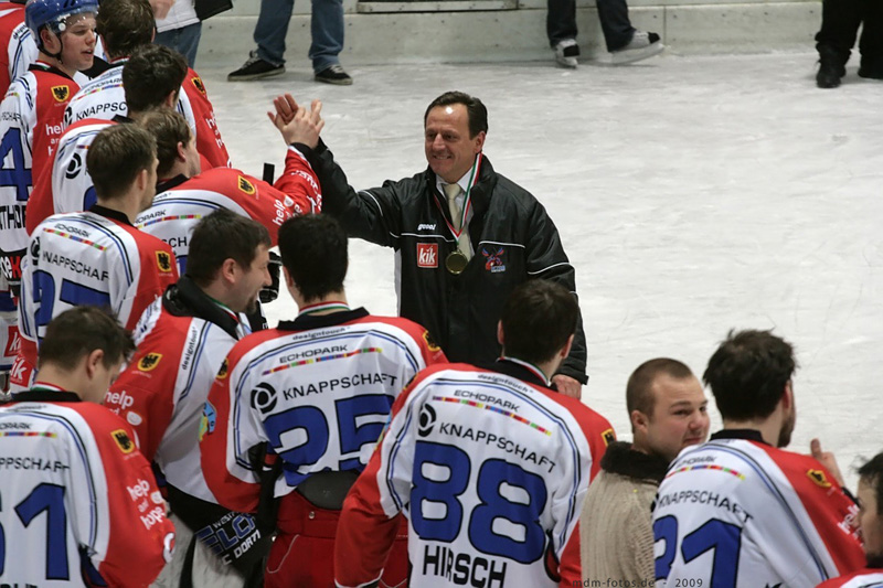 Krystian Sikorski enjoys his winner-team EHC Dortmund